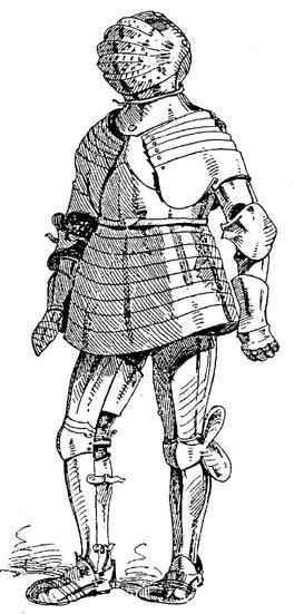 Claude de Vaudrey, Chamberlain of Burgundy (1500)